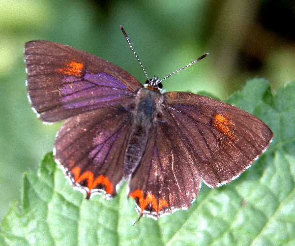 Purple Sapphire (Heliophorus epicles) photographed in Jairampur, Arunachal Pradesh, India.